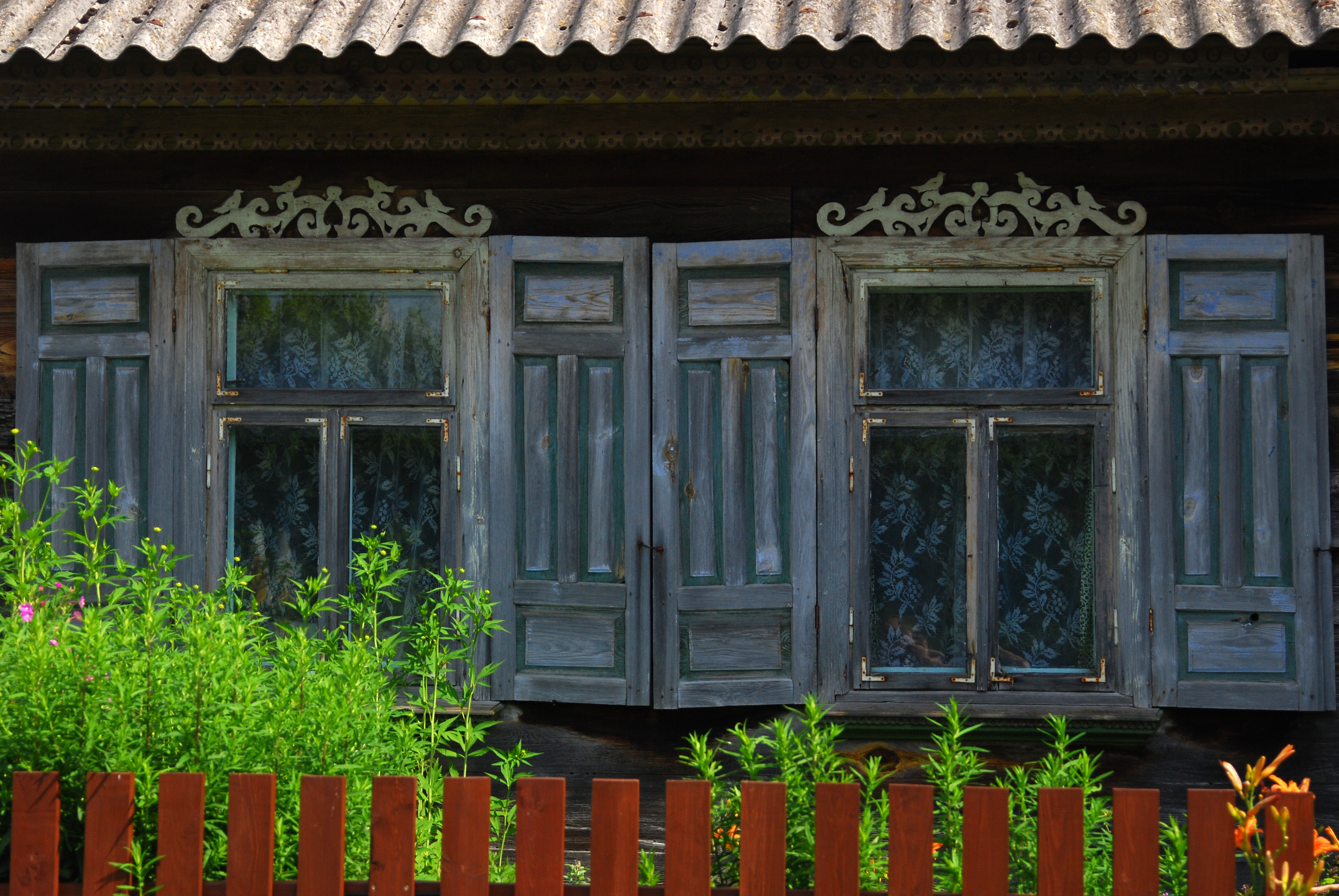 This photo from Podlaskie Voievodeship was taken during Polish Wikiexpedition 2009 set up by Wikimedia Polska Association. The making of this document was supported by Wikimedia Polska. Zdobienia okiennic Trywieża